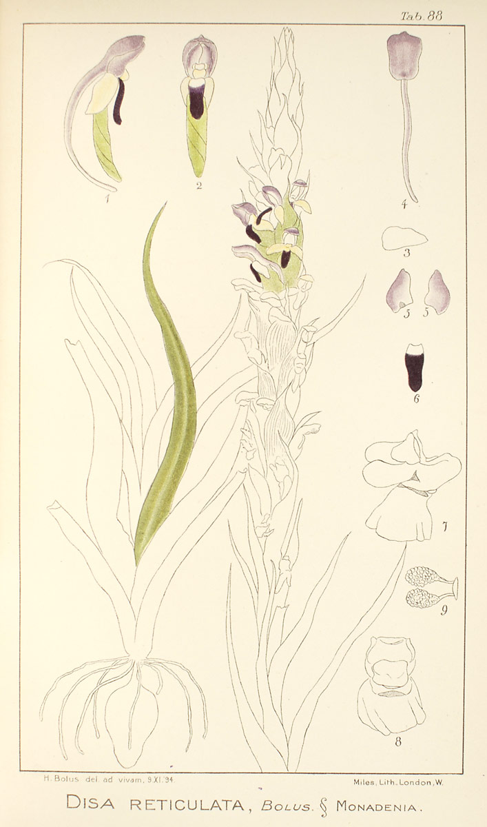 Illustration of Disa reticulata from Harry Bolus Icones Orchidearum Austro-Africanarum